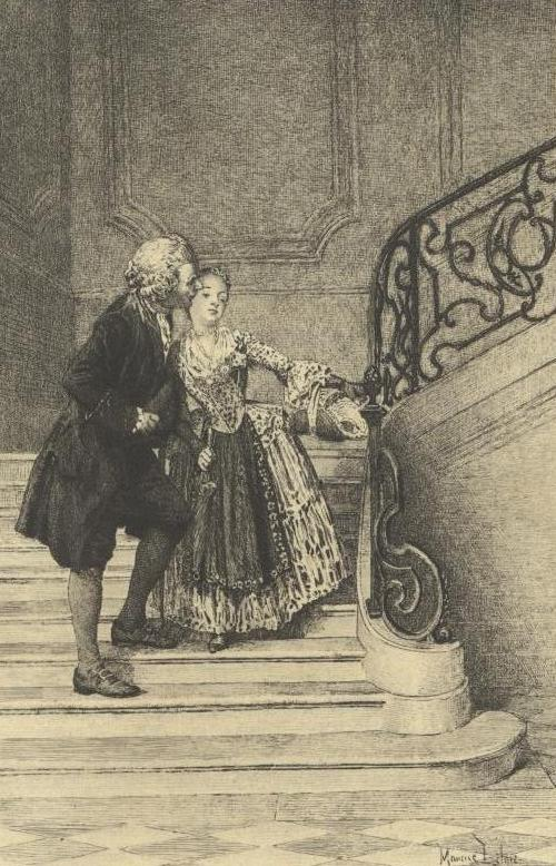 Jean-Jacques and Mlle de Boufflers ; Illustrations ; The Confessions of J.-J. Rousseau ; Aldus